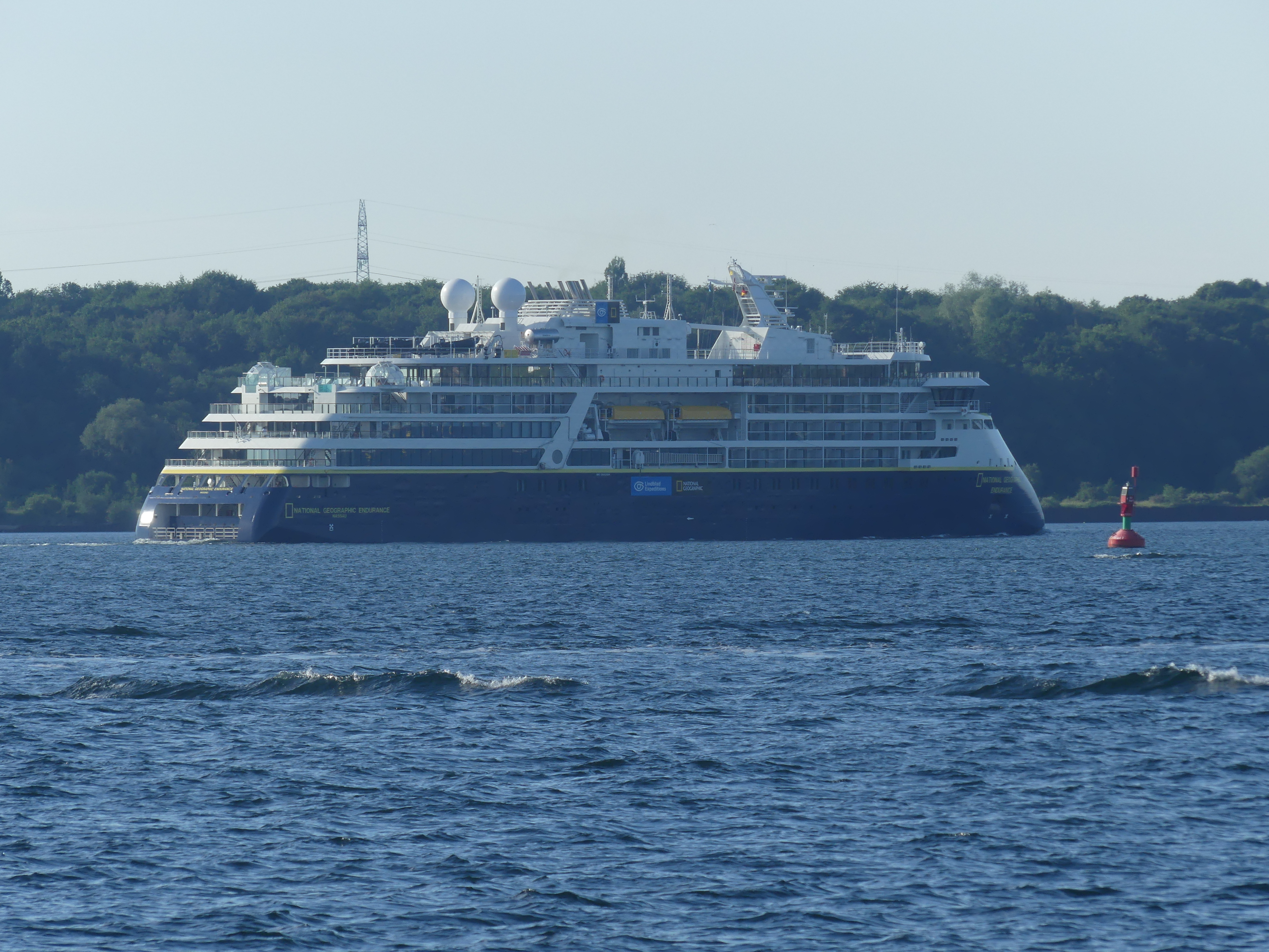 National Geographic Endurance maiden call Kiel.